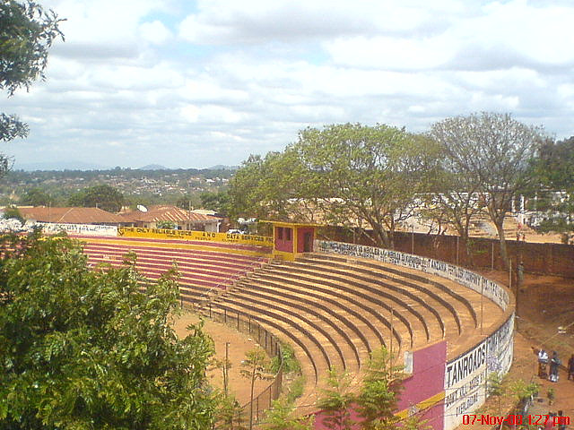 Maji-Maji Stadium, Songea, Tanzania